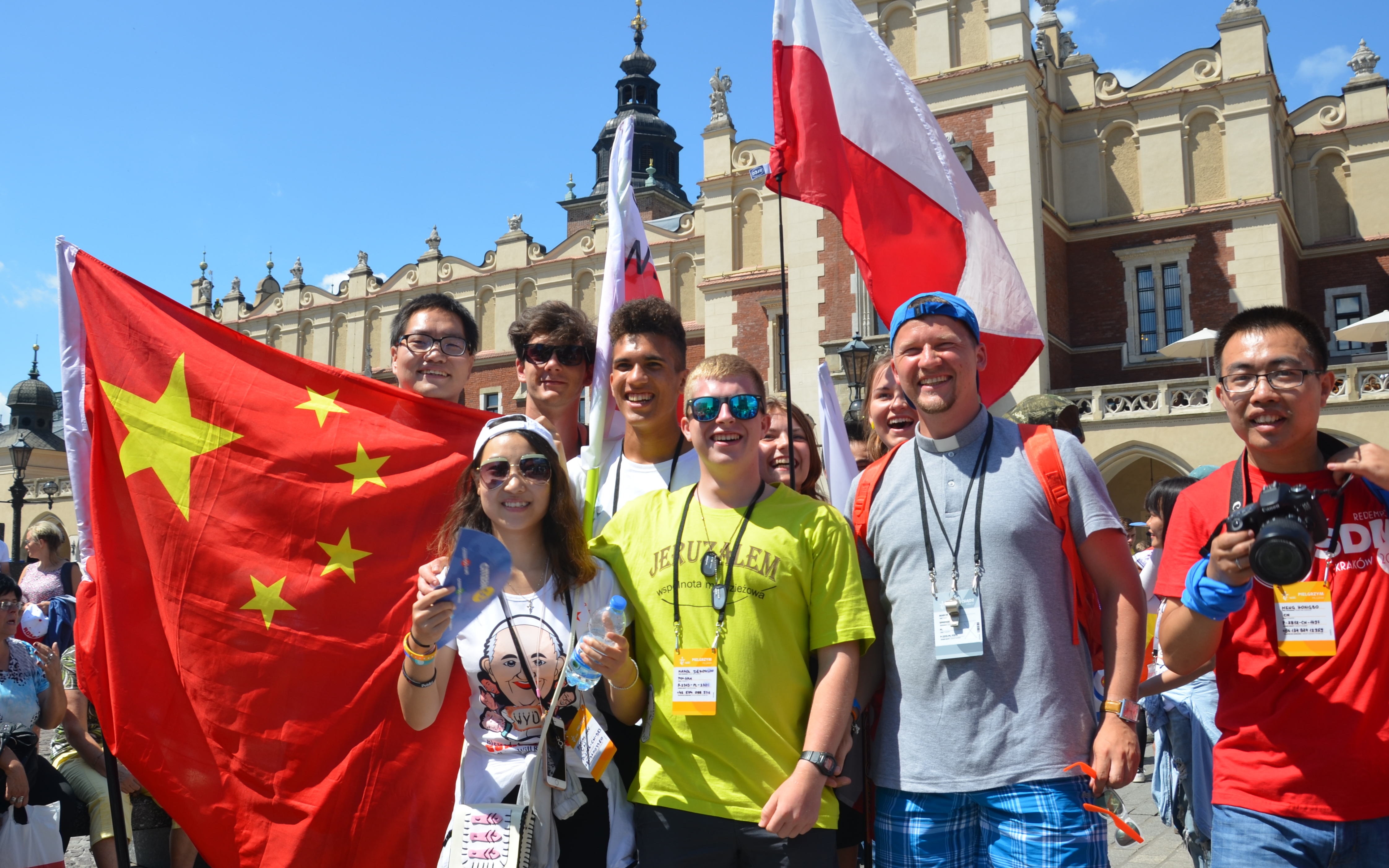 Teilnehmer des Weltjugendtages in Kraku